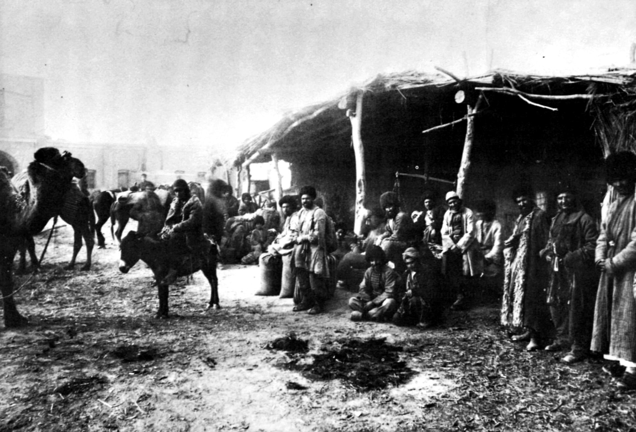 The Caravanserai in Merv.